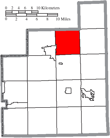 Map of the municipal and township boundaries of Geauga County, Ohio, United States, as of the 2000 census, with the location of Hambden Township highlighted. Township borders are shown only in unincorporated areas in order to differentiate incorporated and unincorporated areas more clearly.